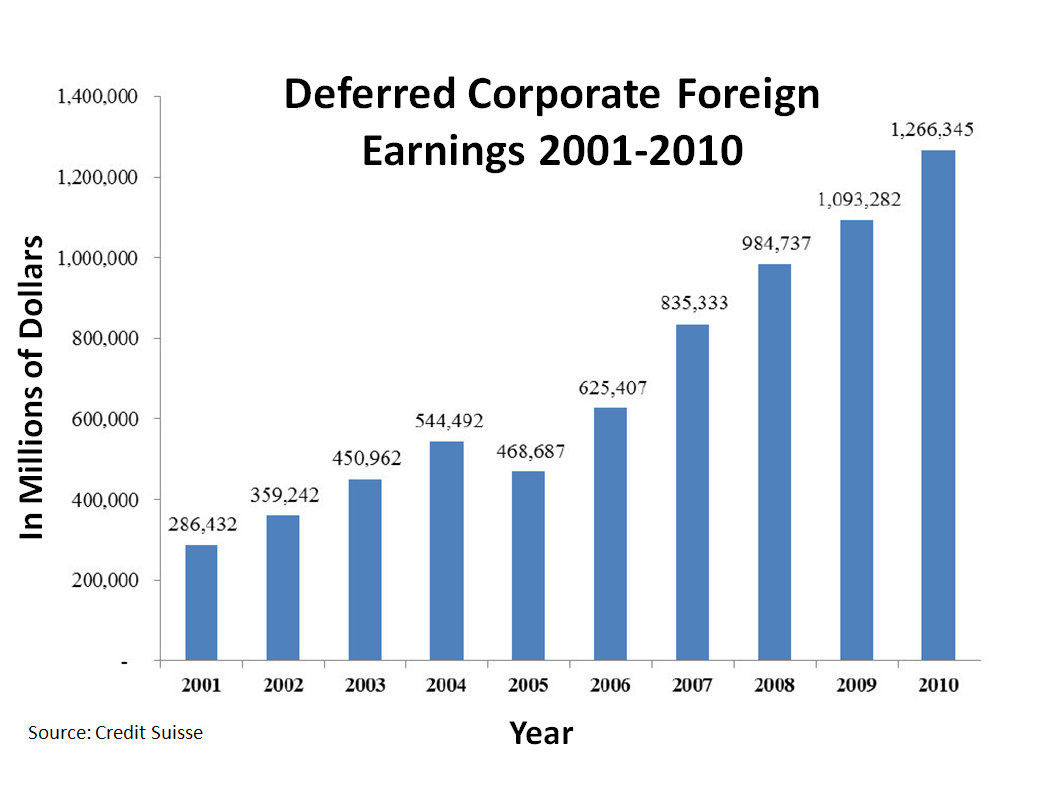 Deferred corporate foreign earnings 2001-2010.